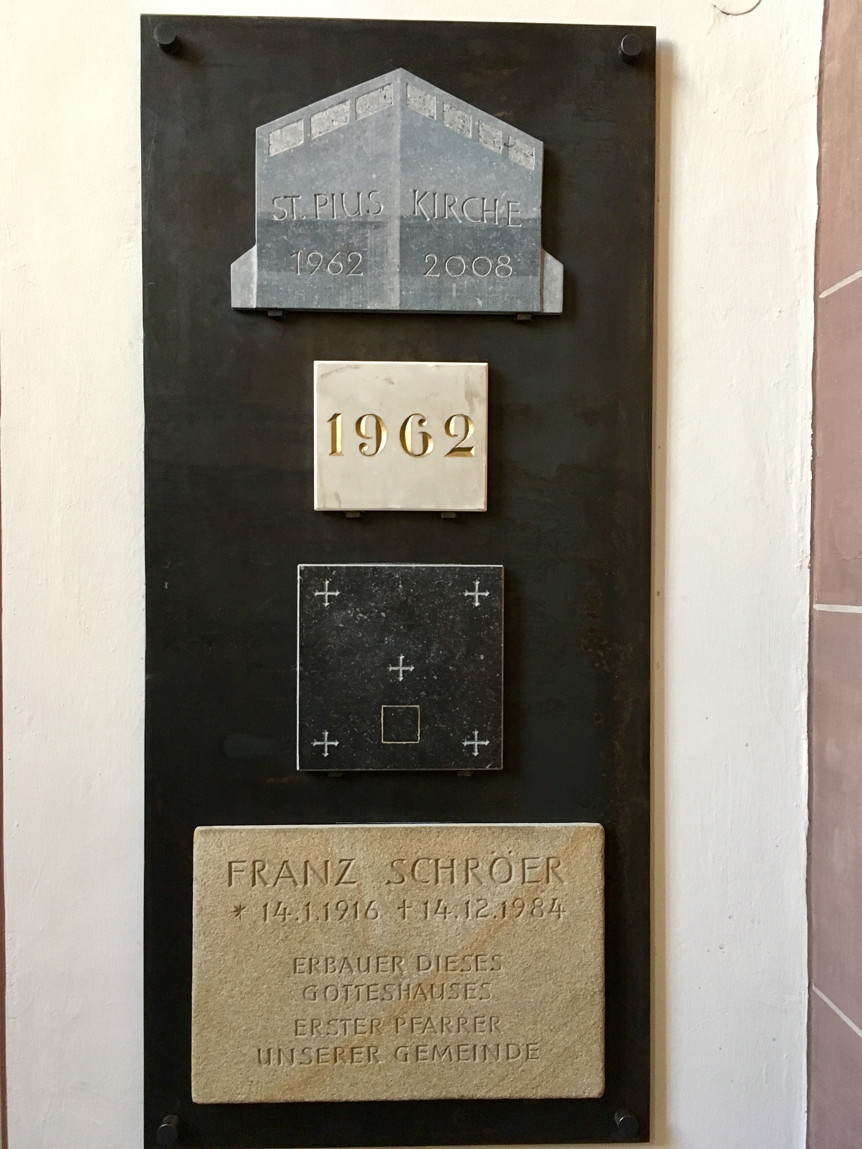 Cornerstone of St. Pius Church (Oberhausen-Sterkrade)